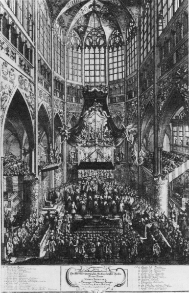 Coronation of Maria Theresa Queen of Bohemia